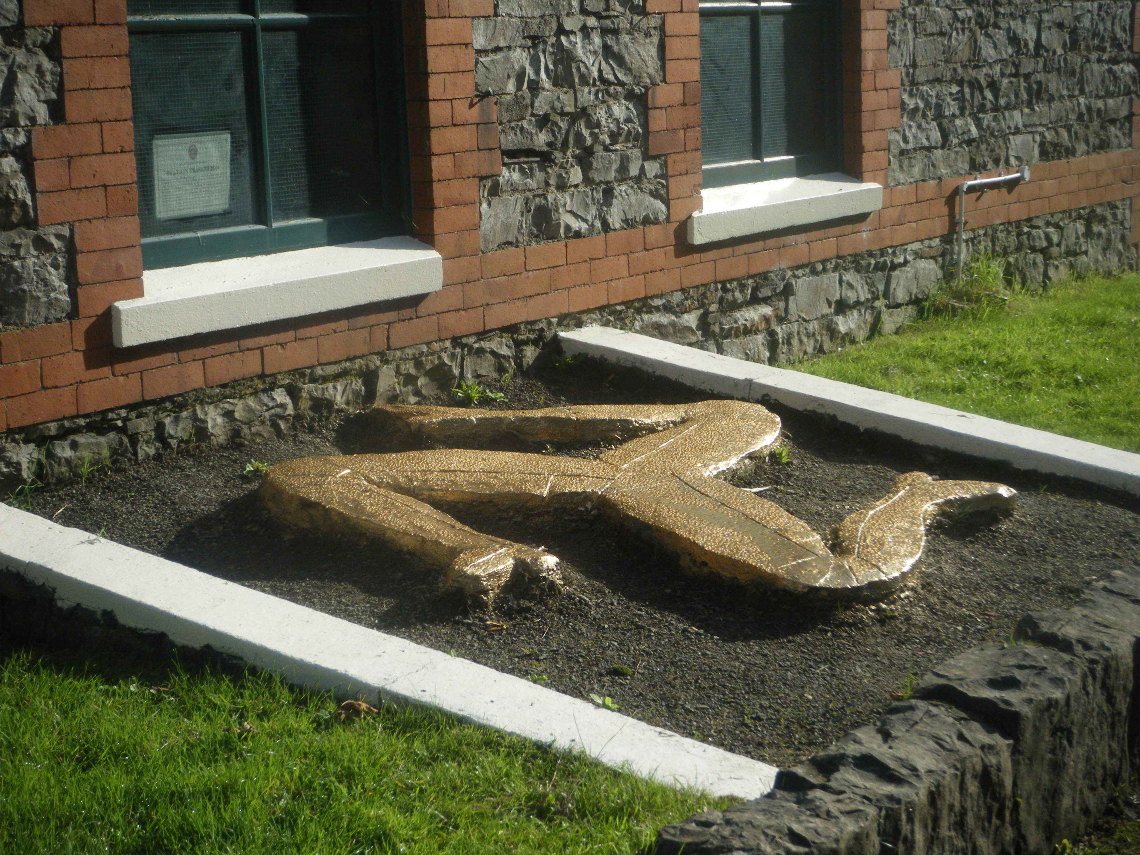 The stone triskelion (three legs of Mann) at Castletown Station on the Isle of Man Railway during restoration.